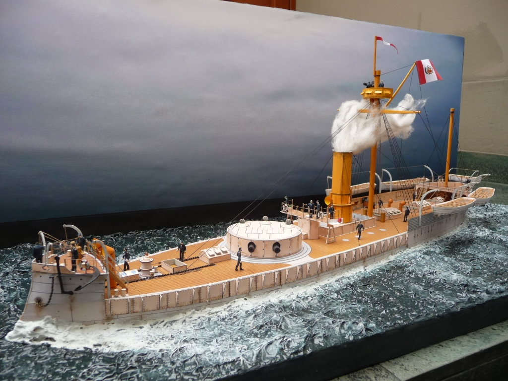 bap huascar